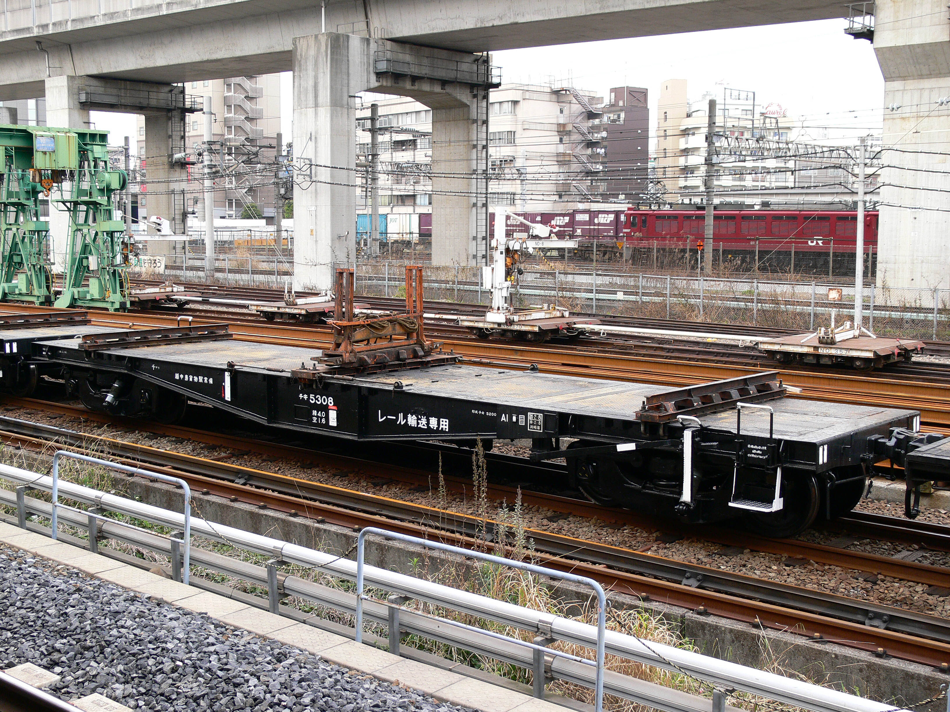 Japan national railway series "chiki 5200" rail carry car. Tabata Station, Tokyo, Japan.